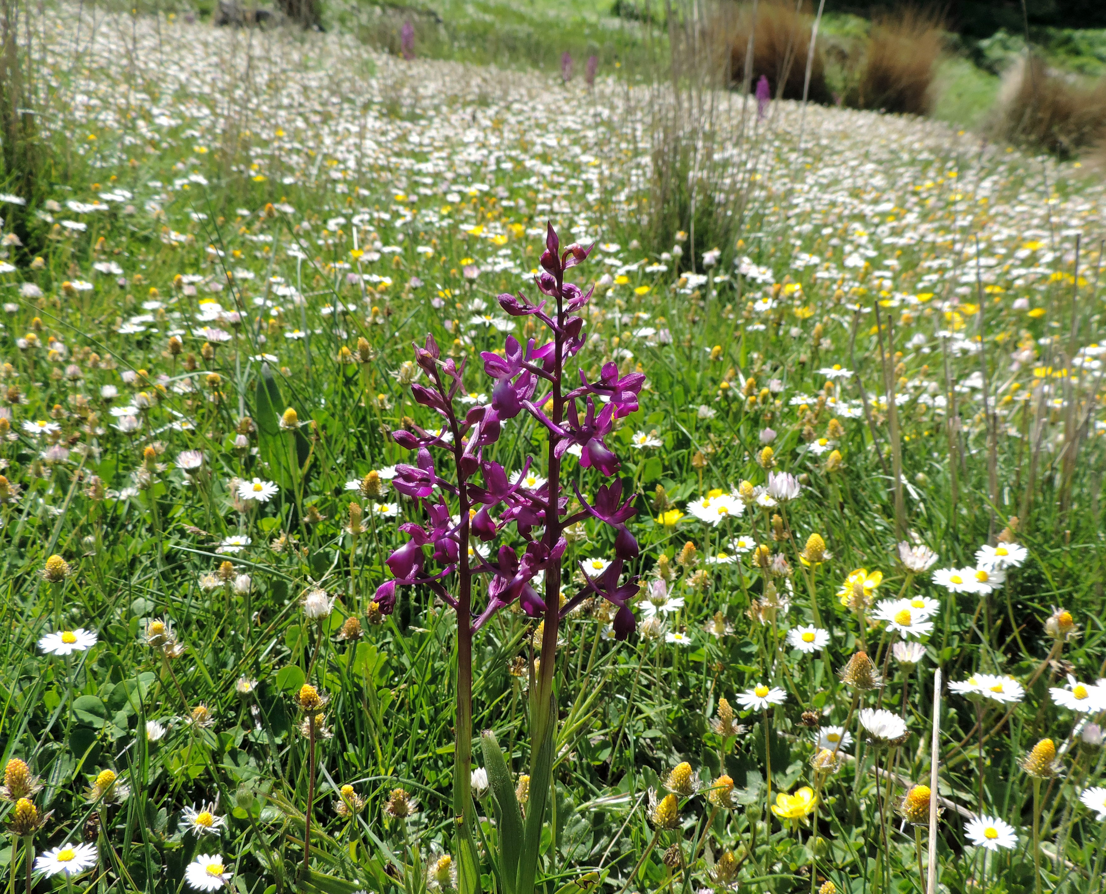 This is a photography of Natura 2000 protected area with ID GR4320005